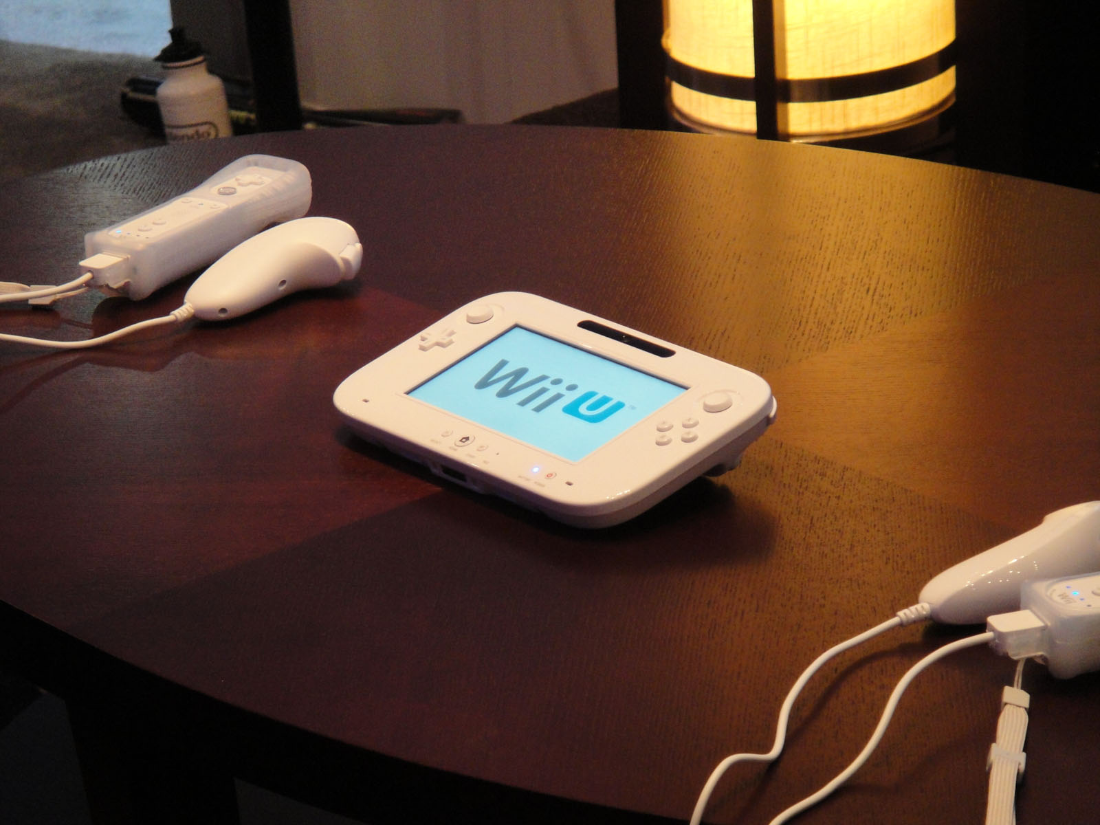 photo 2011 taken by Doug Kline If you're interested in higher resolution versions of my images, contact me via my profile page.